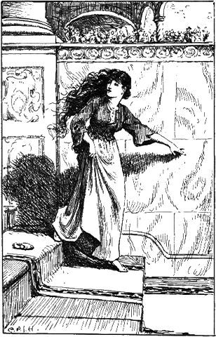 Illustration by G. P. Jacomb Hood for the story 'Cinderella; or, the little glass slipper' contained in 'The Blue Fairy Book' edited by Andrew Lang 1889